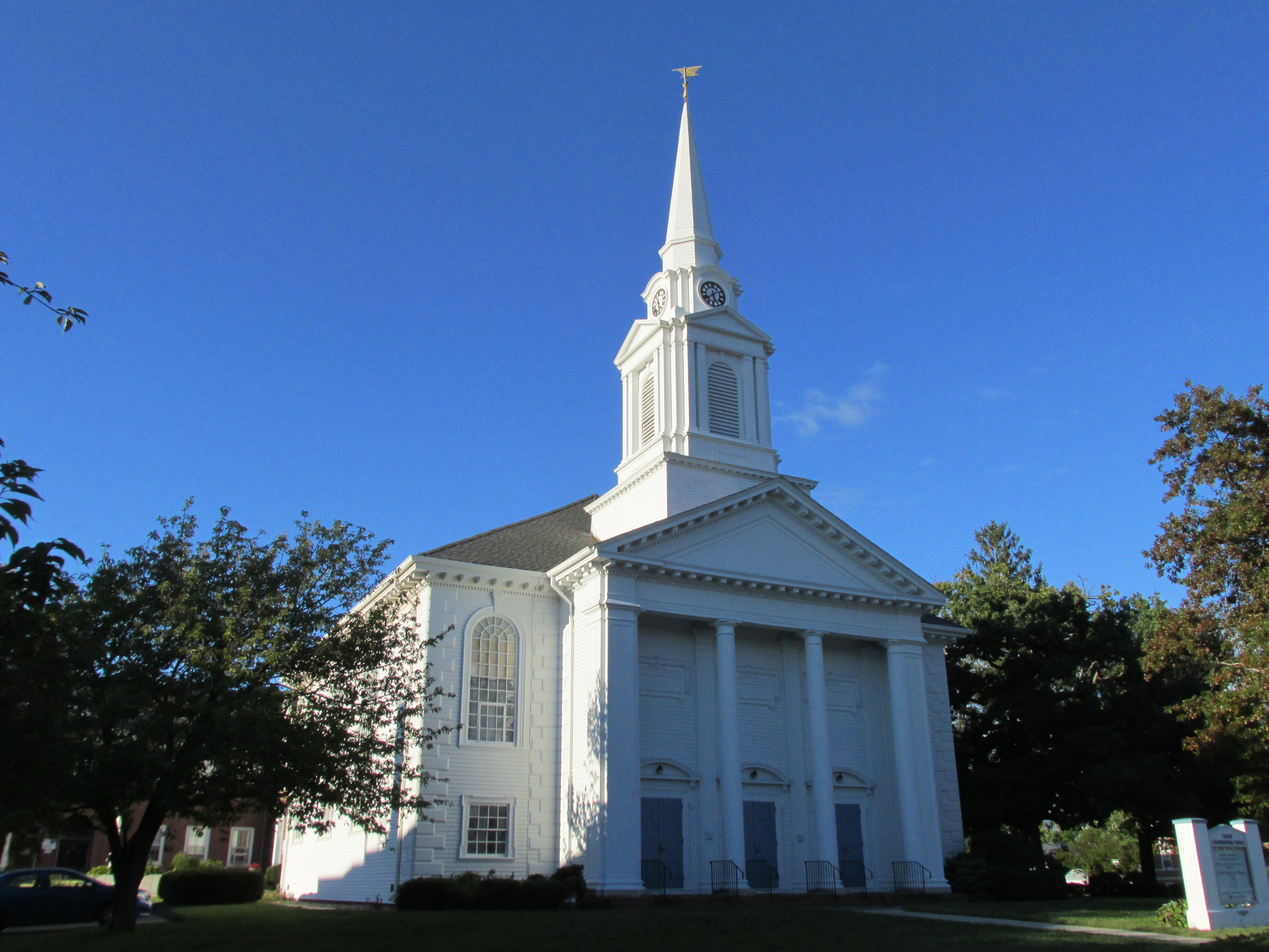 Center Congregational Church in the Manchester Historic District, Manchester Connecticut